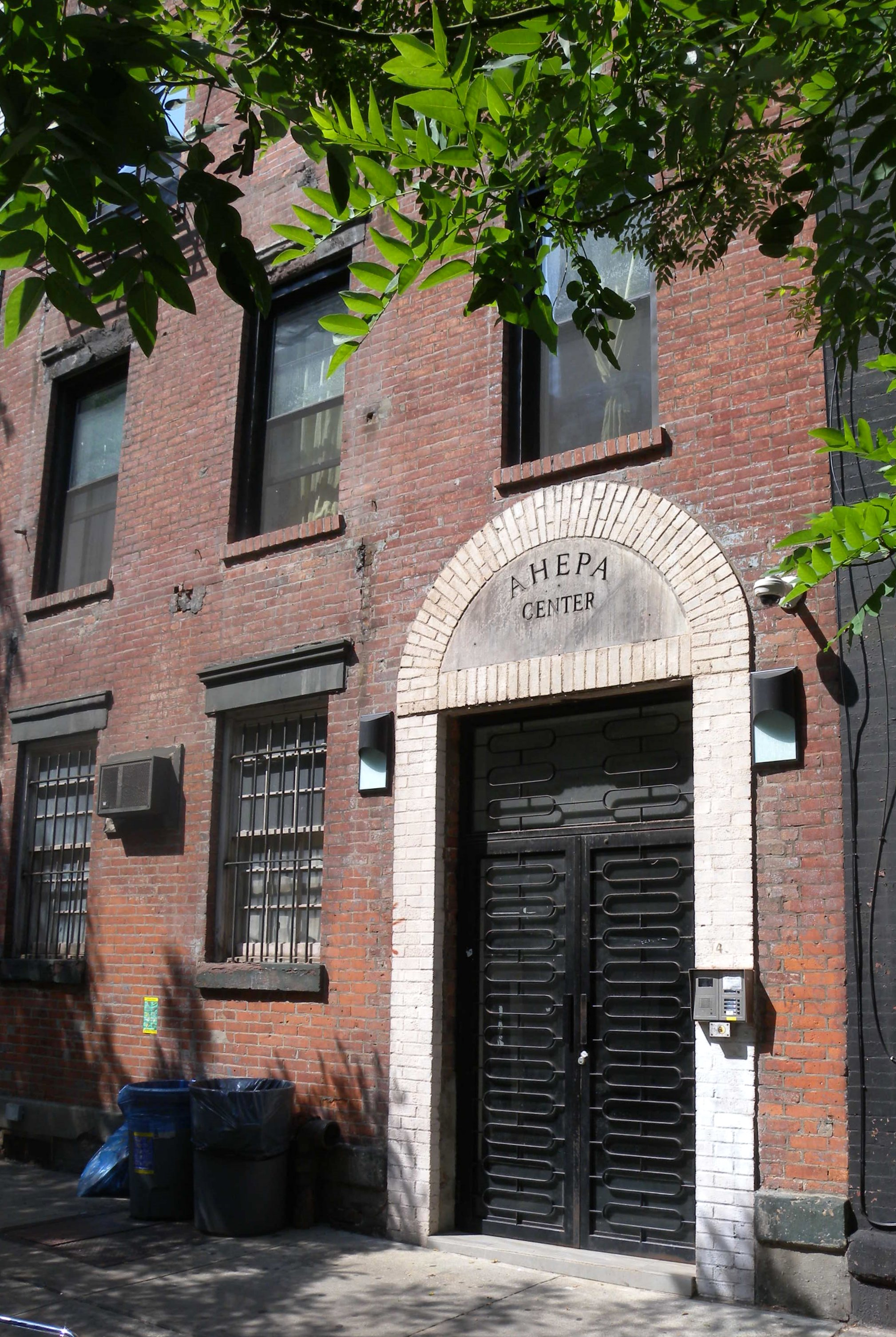 Looking north at former AHEPA Center on a sunny afternoon.